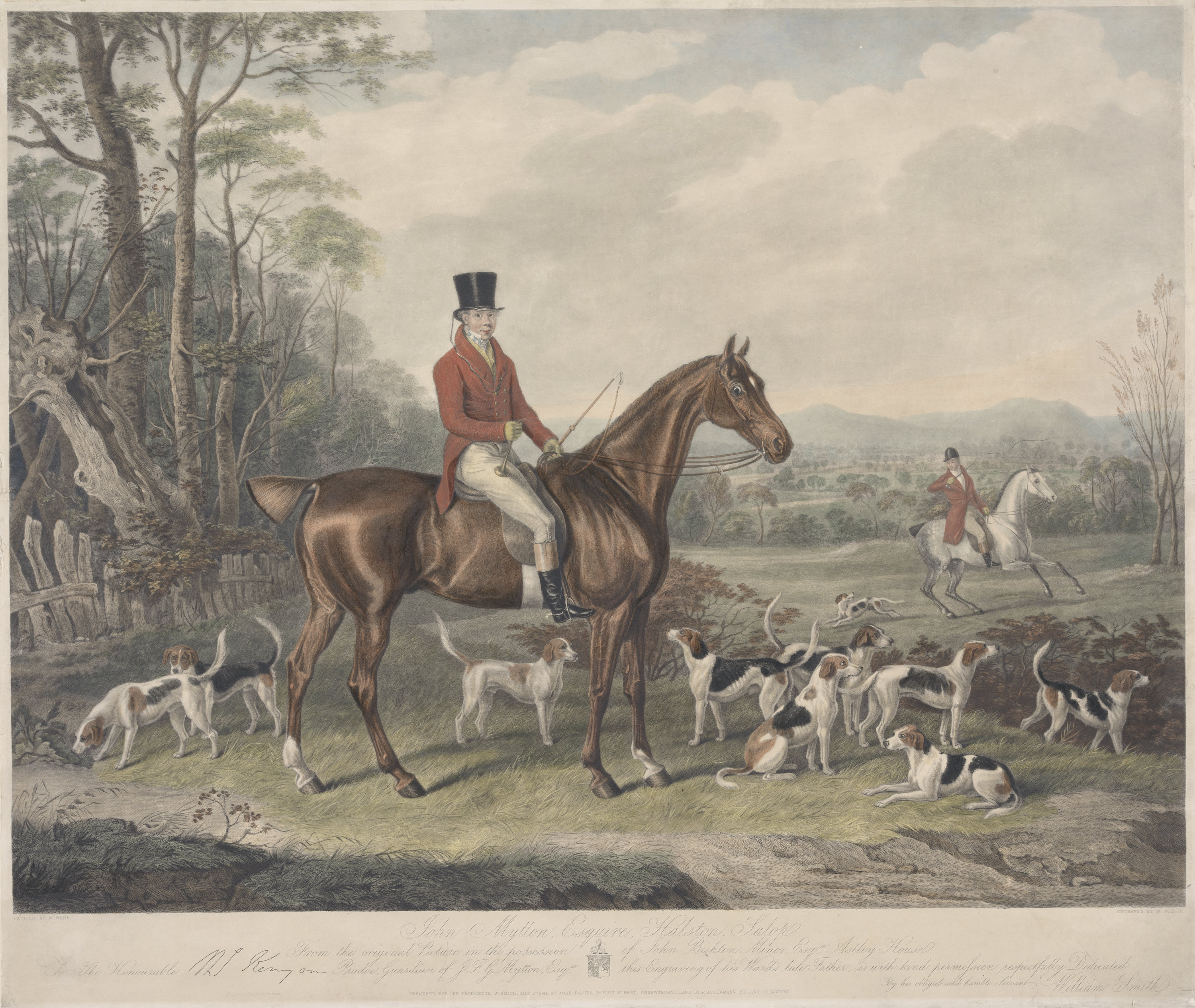 John Mytton, Esquire, Halston, Salop, by William Giller after William Webb, 1841, aquatint, hand-colored, Yale Center for British Art.